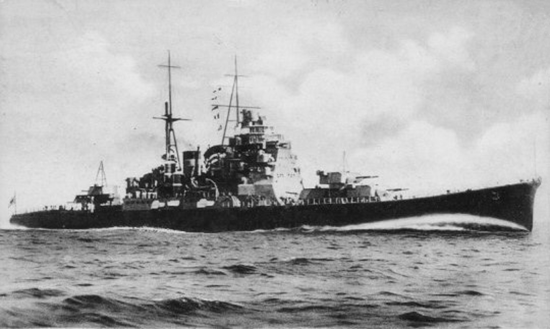 IJN heavy cruiser Maya on a pre-war Japanese postcard.